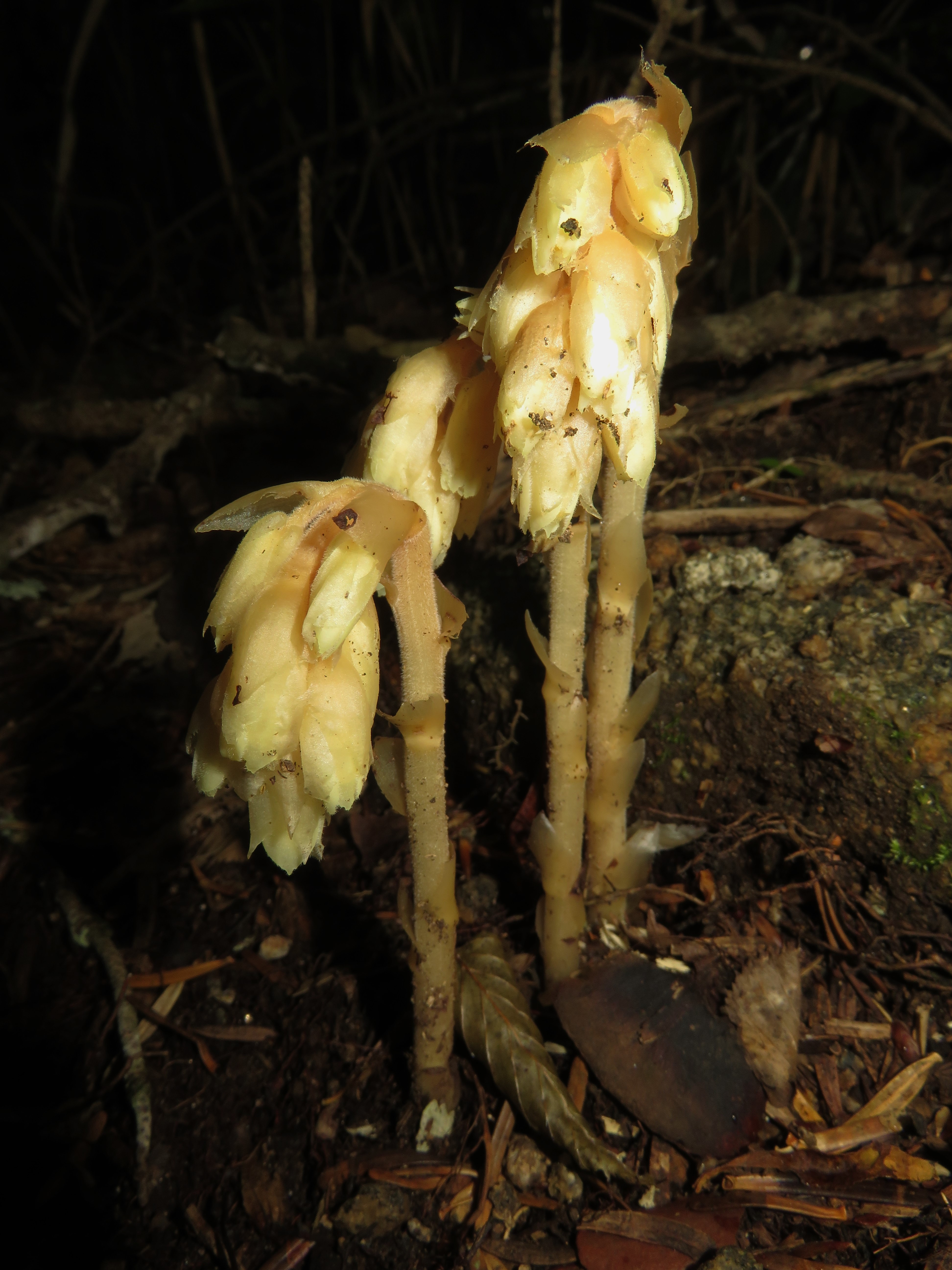 Monotropa hypopithys, Hama-dori area, Fukushima pref., Japan